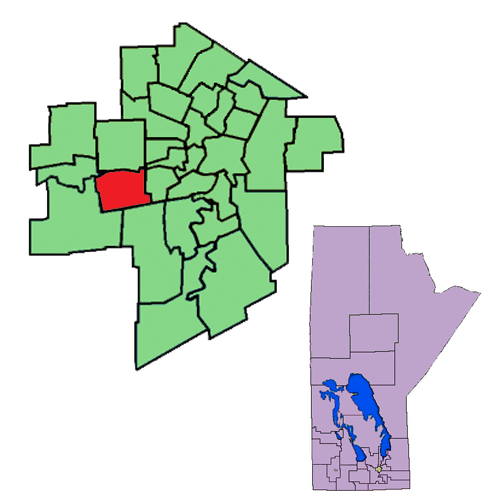 The 1999-2011 boundaries for the Tuxedo electoral district in Manitoba highlighted in red